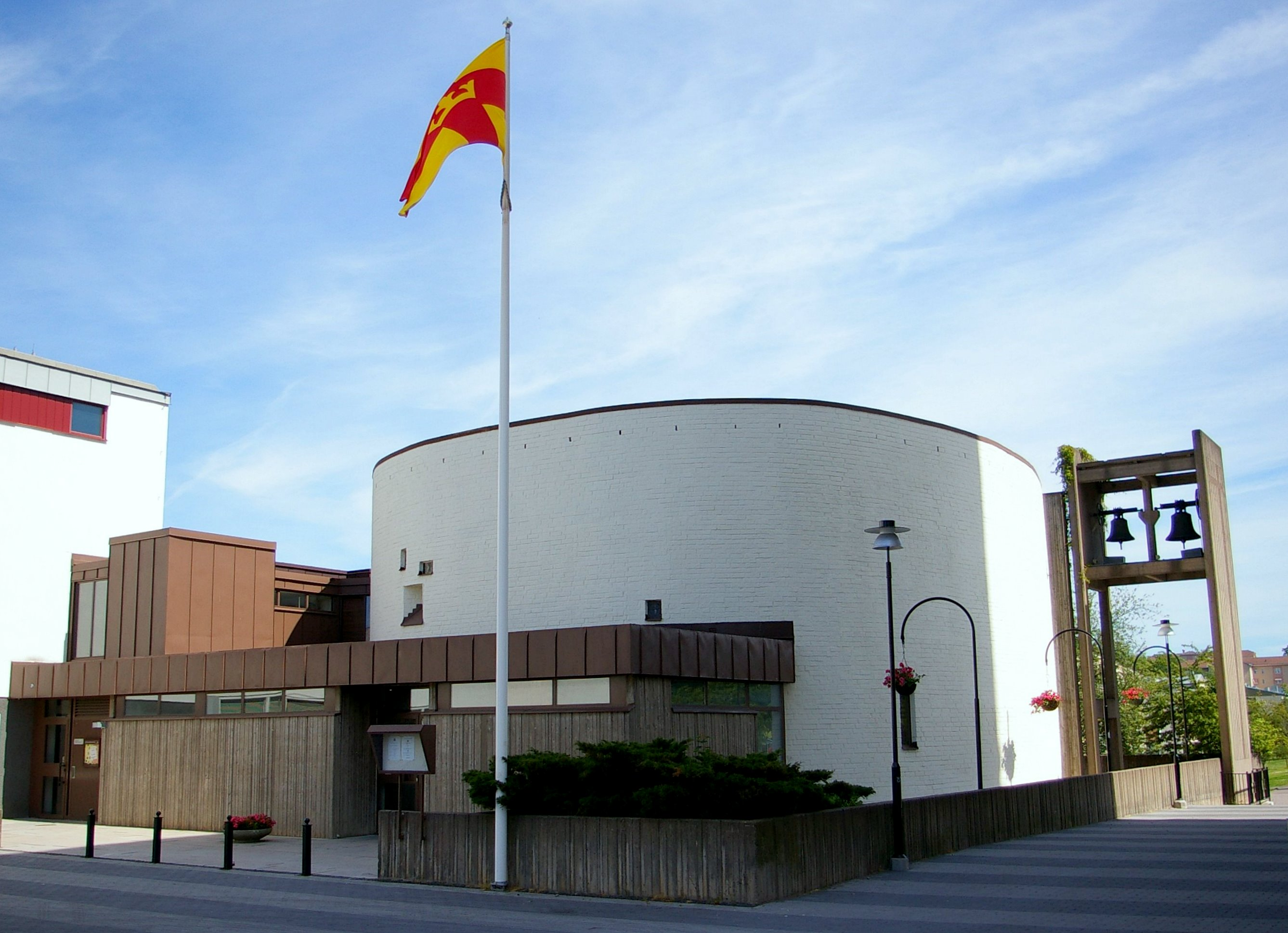 Church of Saint Mary, Johannelund, Linköping, Sweden.